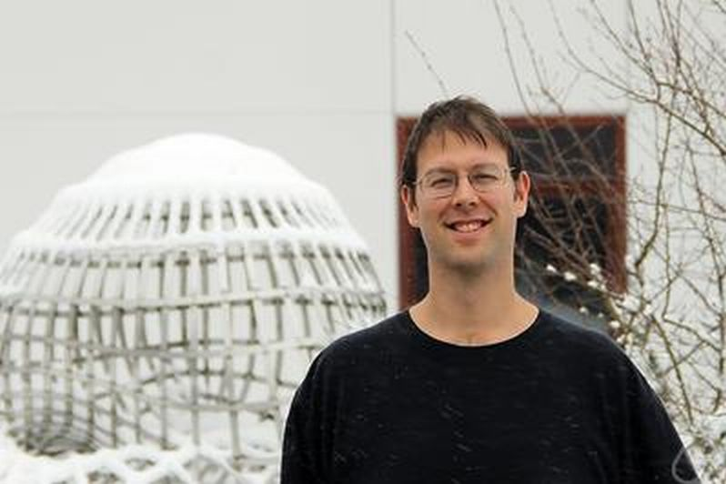 Jacob Fox, Oberwolfach 2016